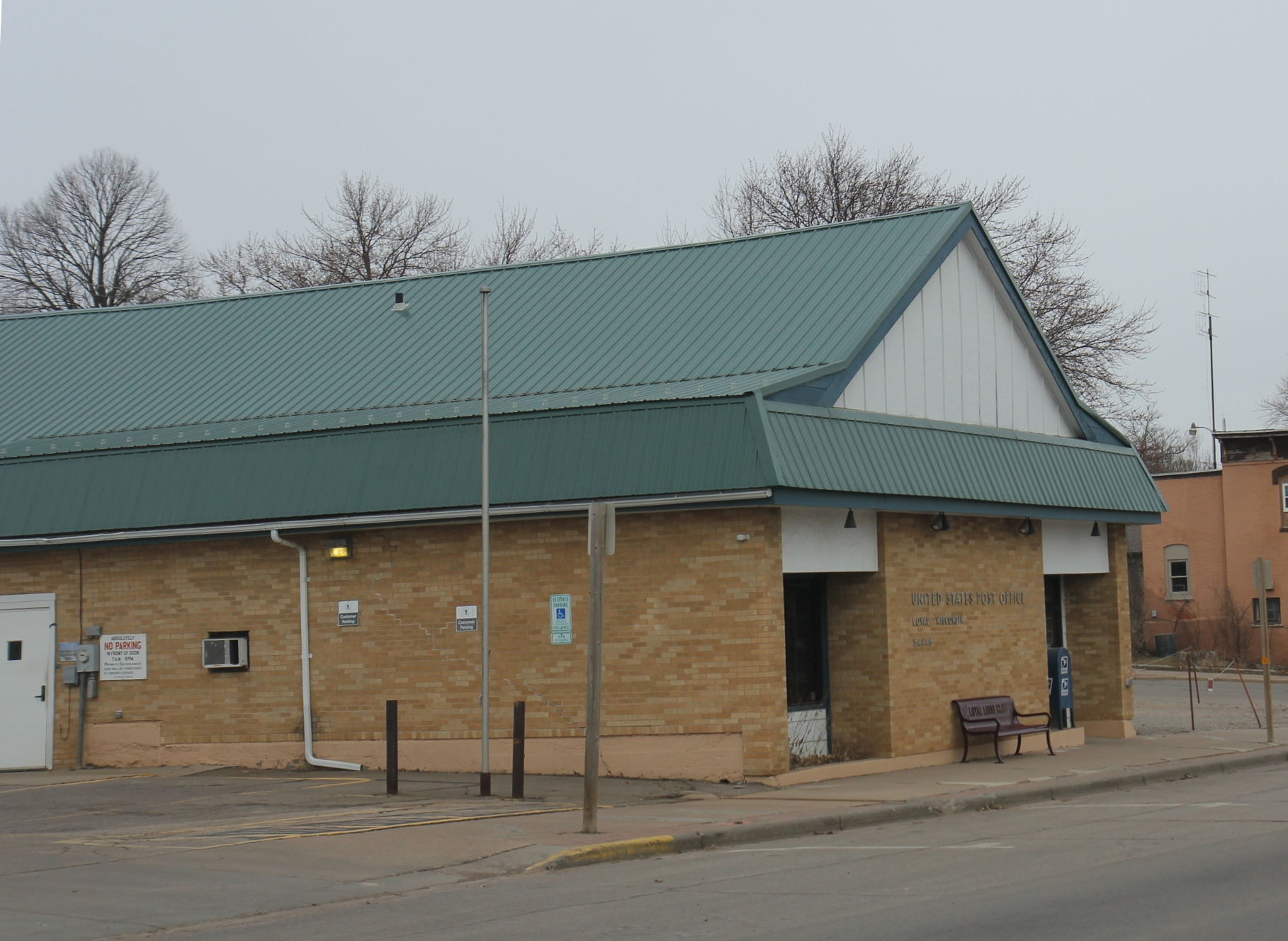 The post office in Loyal, Wisconsin.